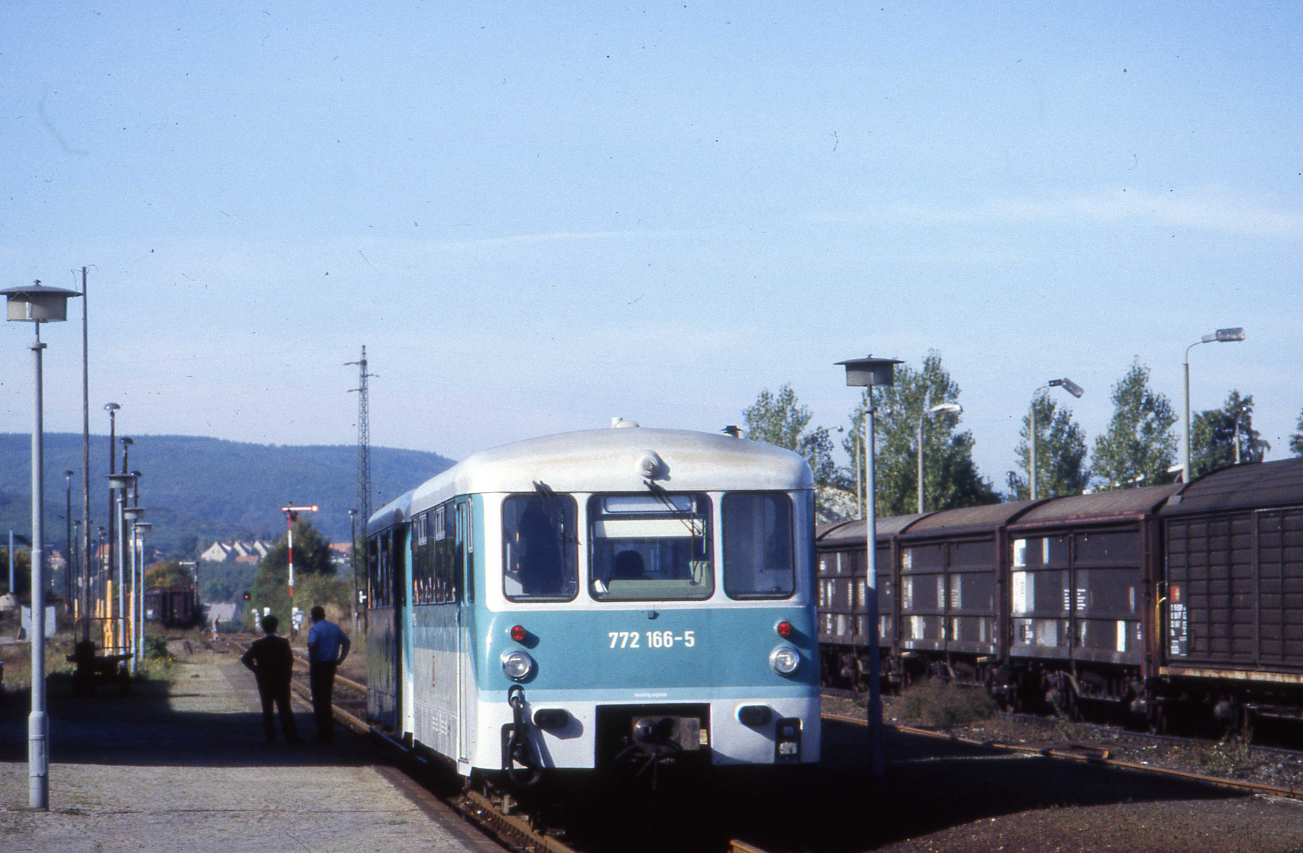 This service to Quedlinburg closed at the end of January 2004. Since that time a company has replaced the standard gauge with narrow gauge track and extended the Selketalbahn from Stiege to Gernrode now to the ancient town of Quedlinburg. Even steam locomotives are to be seen at Quedlinburg now.